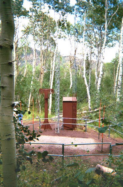 SNOTEL site number 454 at Draw Creek in Nevada.